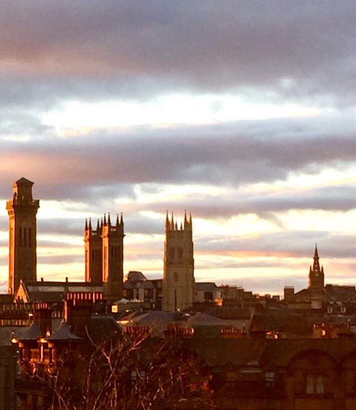 Park district skyline Glasgow December 2016